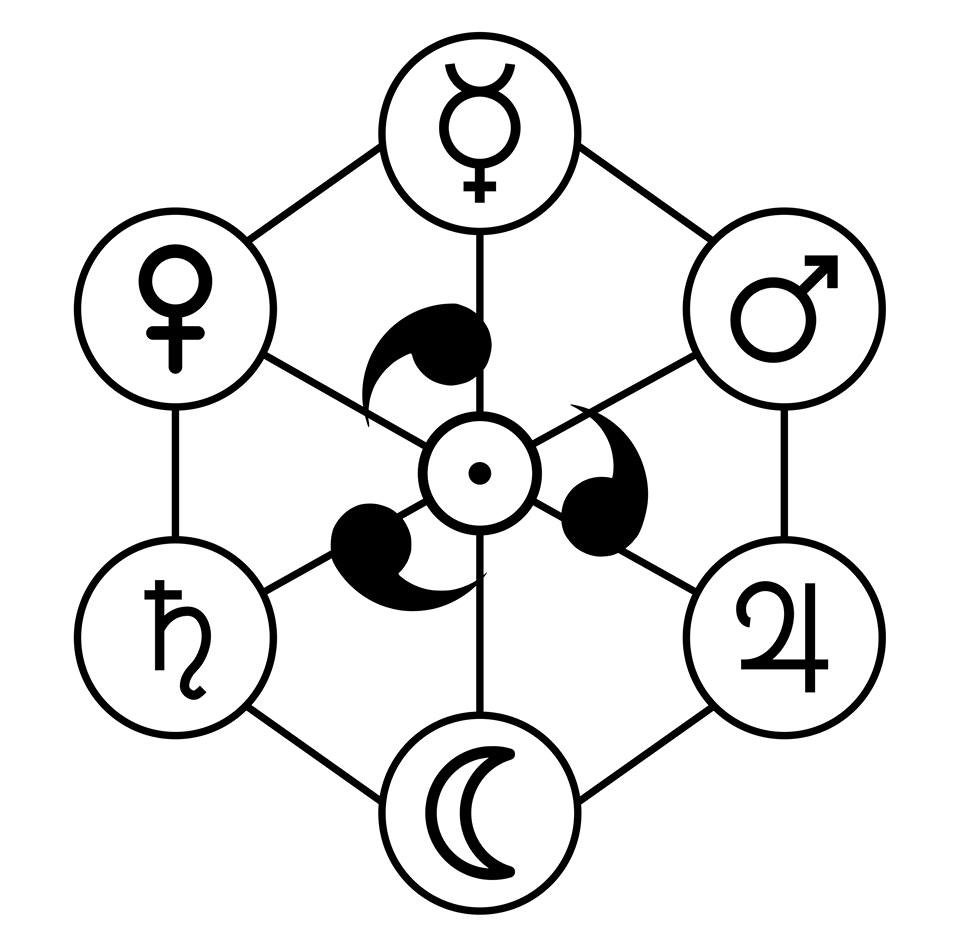 Sigil using Tomoes